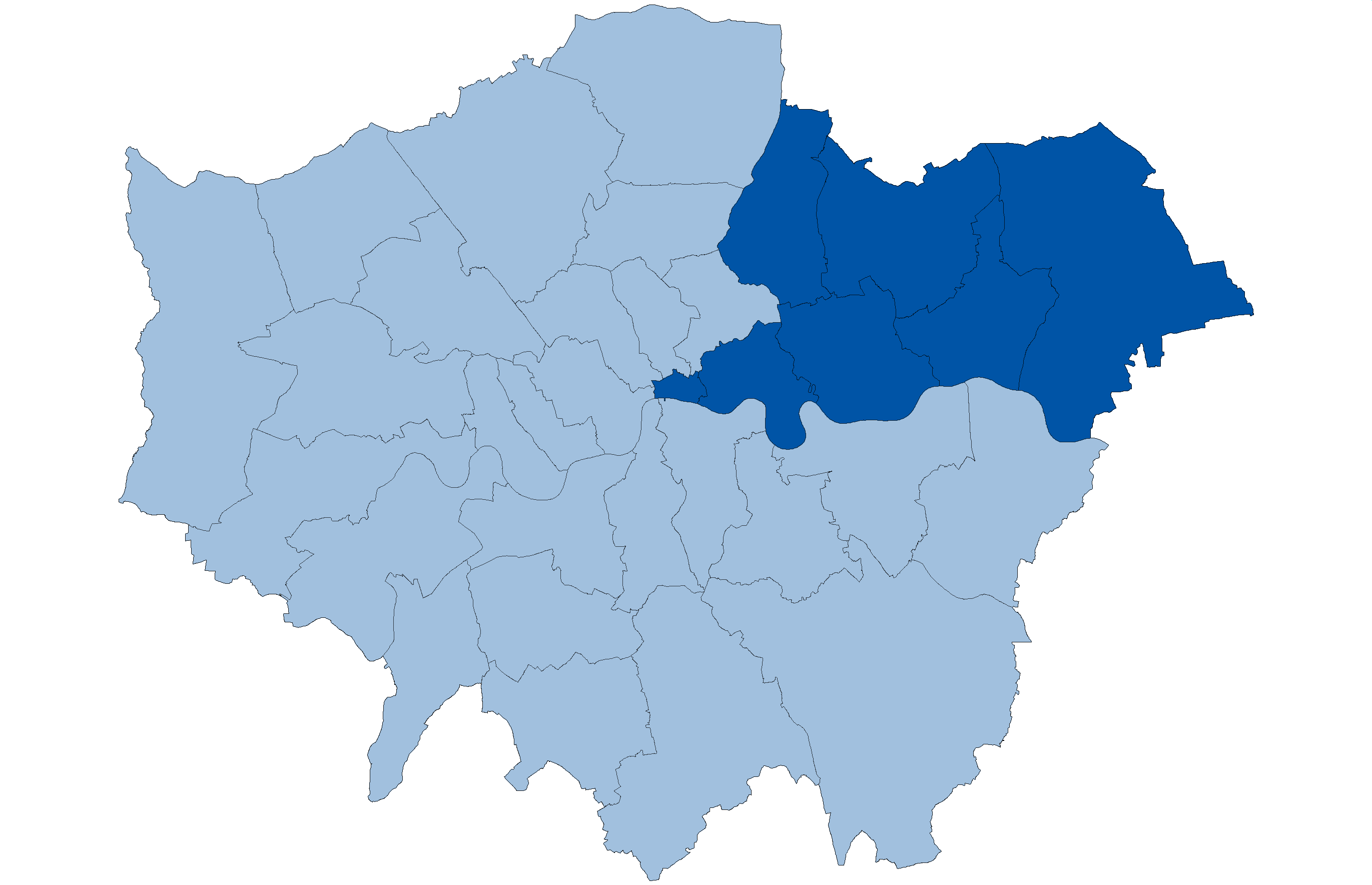 North east sub region of Greater London established in 2008